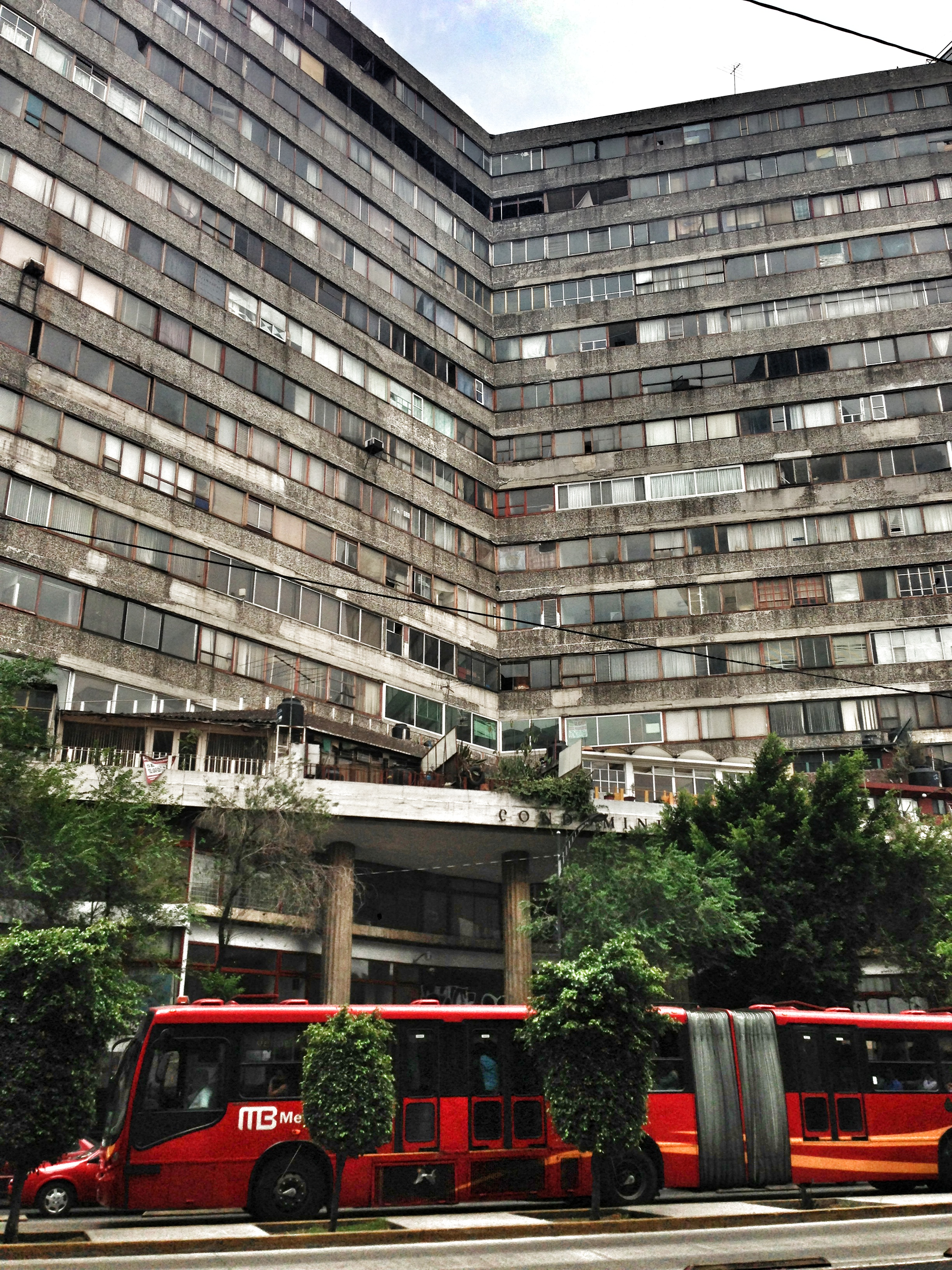 Insurgentes 300 closeup,colonia Roma Norte, Mexico City